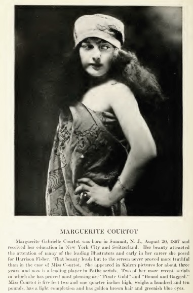 Actress Marguerite Courtot from Who's Who on the Screen, published by Ross Publishing Co., 1920 [1]